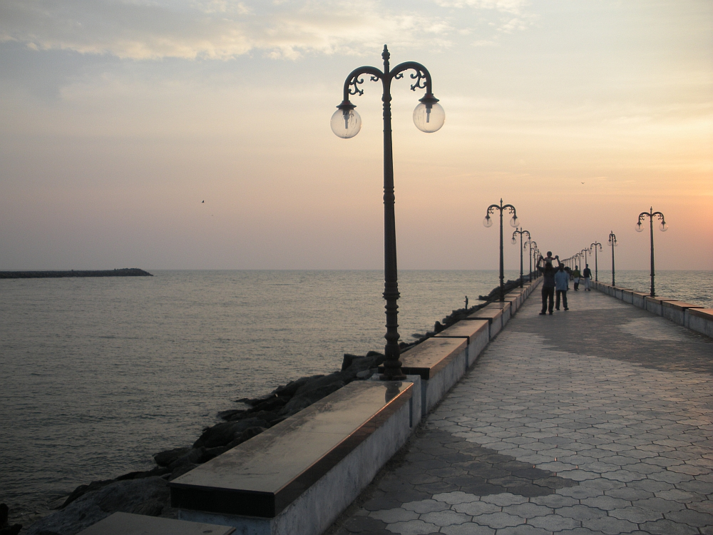 Beypore